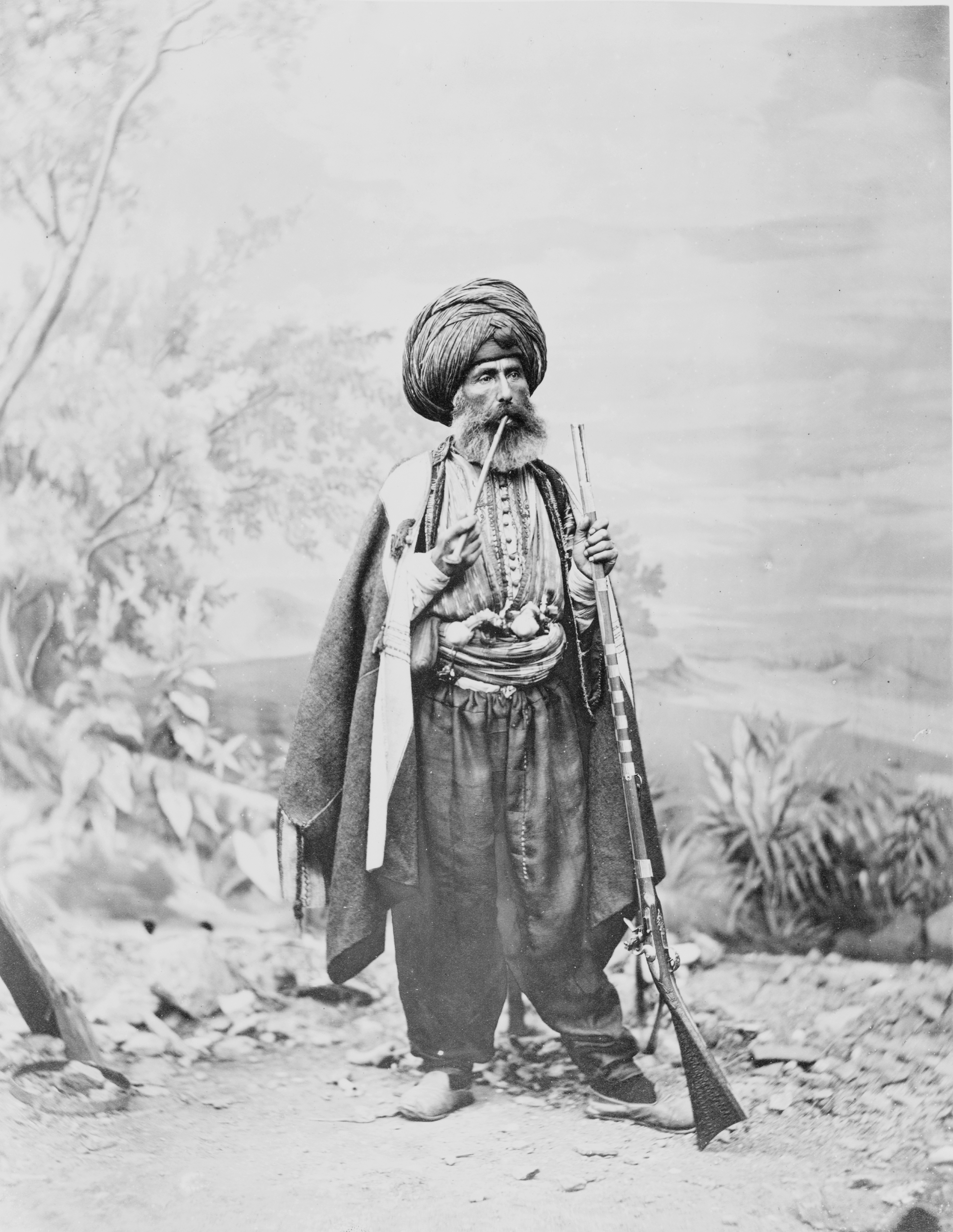 Chaldean man in traditional Turkish costume, posed before a backdrop, holding rifle and smoking a pipe.